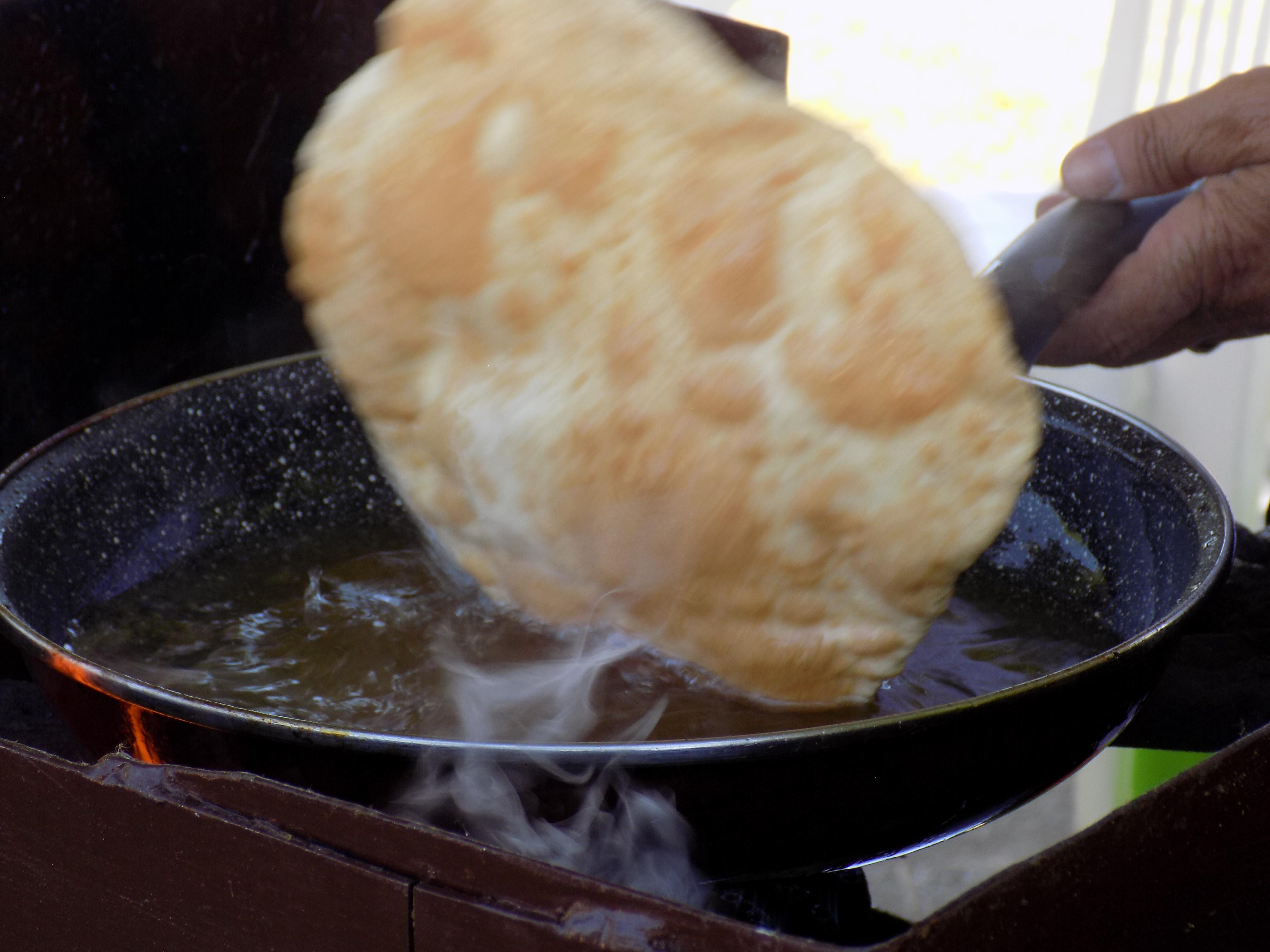 Preparing of Montenegrin donuts - Priganice at the "Carp Day" festival at the Plavnica Eco Resort near Podgorica, Montenegro